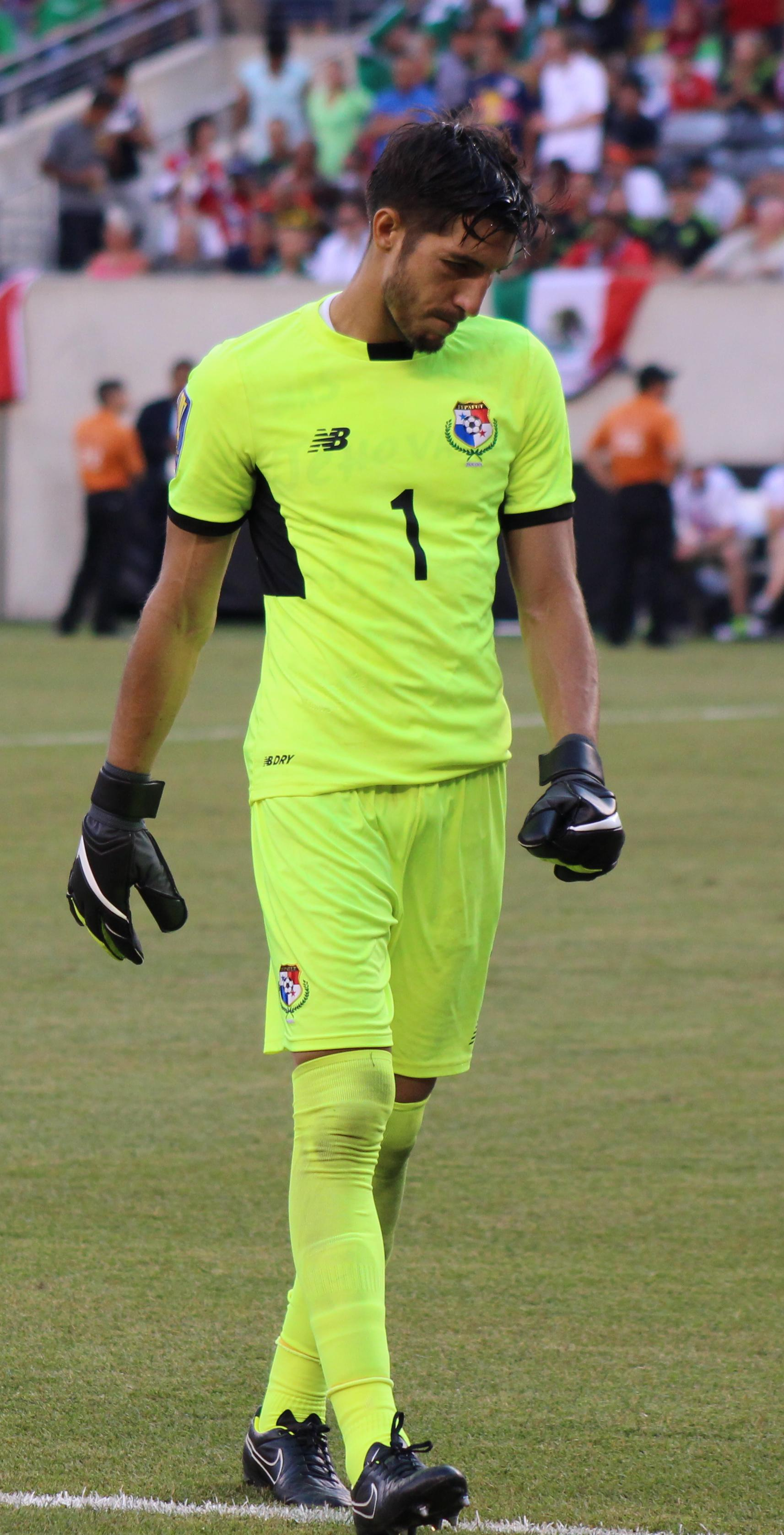 Panamanian goalkeeper Jaime Penedo